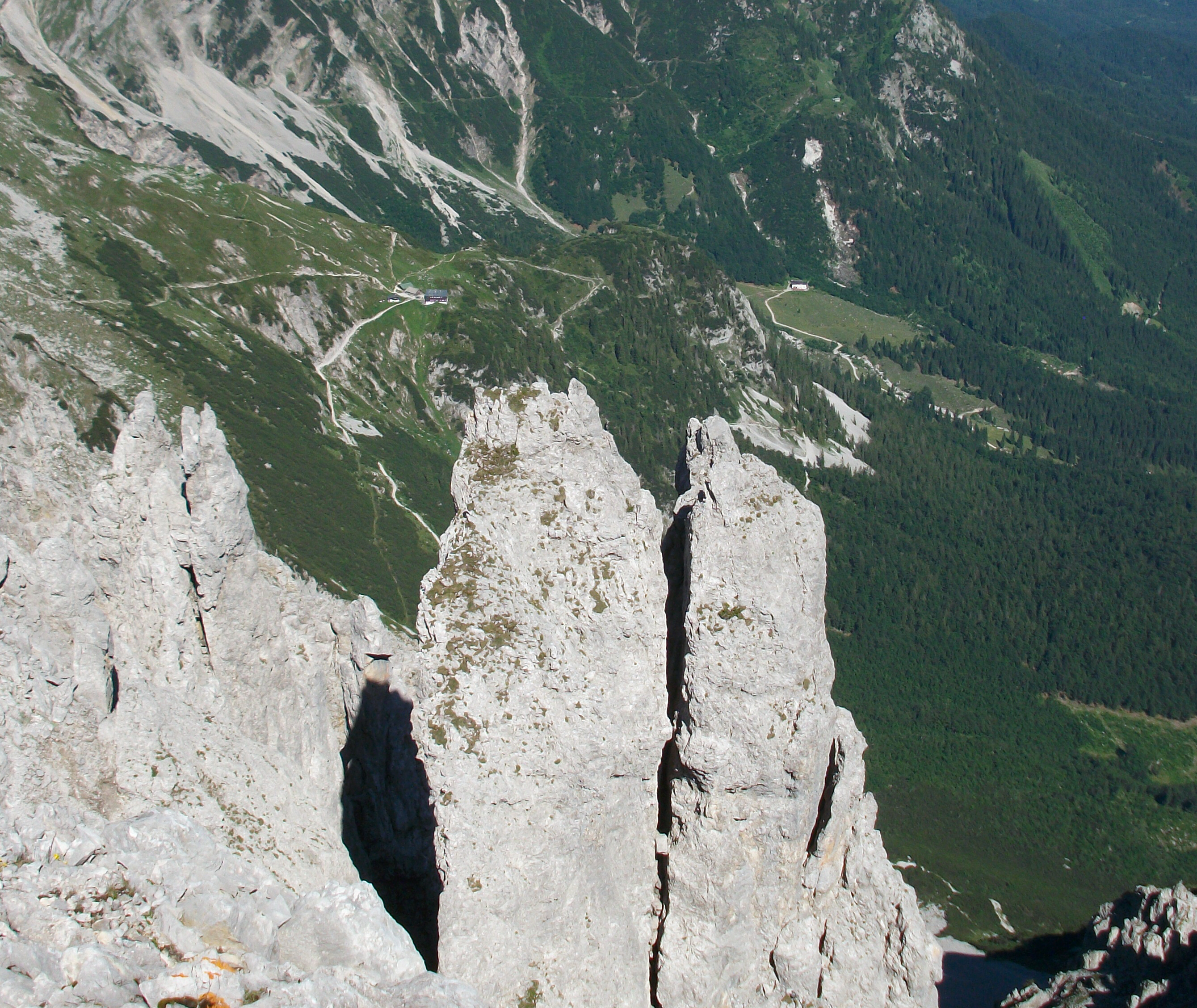 Gruttenhütte and Gaudeamushütte